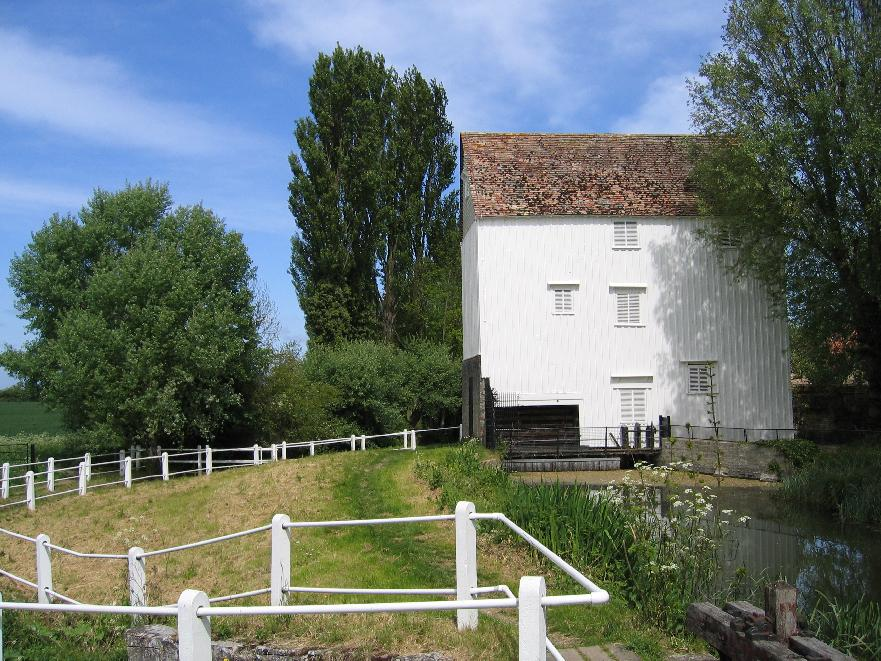 Lode Mill, a watermill at the junction of Quy Water and Bottisham Lode in Lode, Cambridgeshire, and now part of Anglesey Abbey. It lies on the long-distance footpath Harcamlow Way. Saturday May 14, 2005.